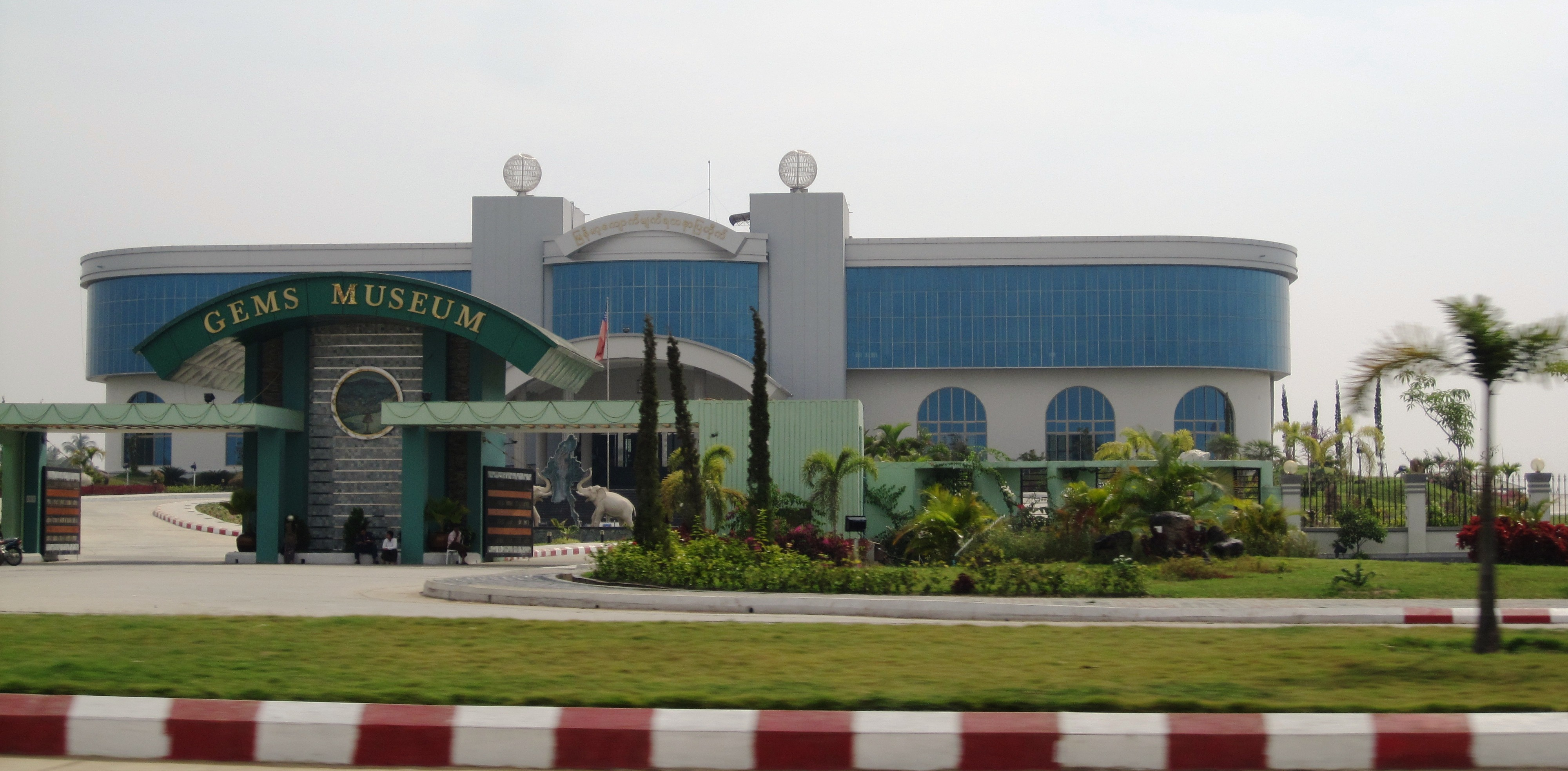 Naypyidaw, Naypyidaw Capital Region, Myanmar: Naypyitaw Gems Museum.